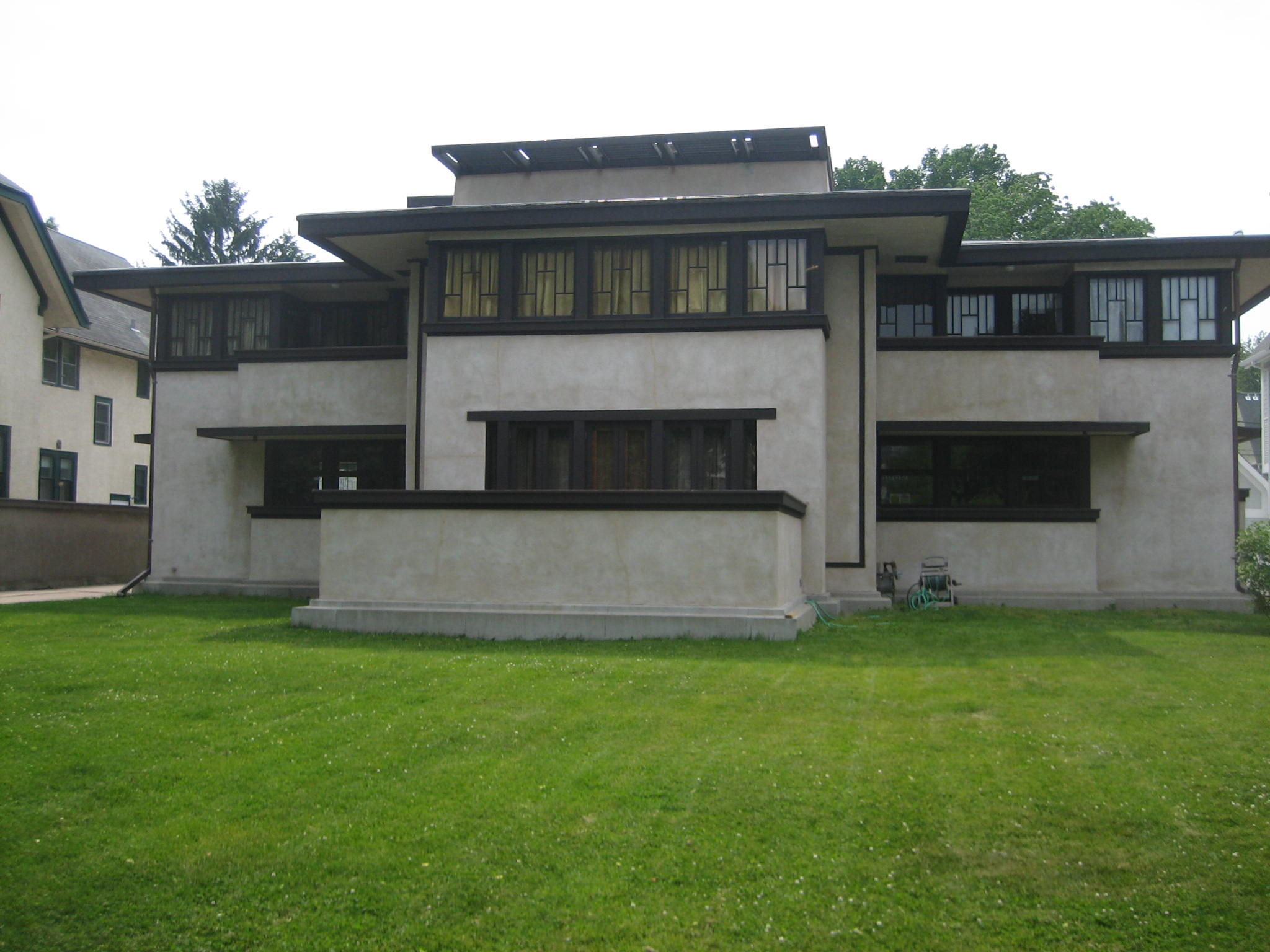 Oscar B. Balch House, designed by Frank Lloyd Wright, 1911. Contributing property to Frank Lloyd Wright-Prairie School of Architecture Historic District, U.S. National Register of Historic Places. The house is located at 611 N Kenilworth Ave, Oak Park, Illinois.